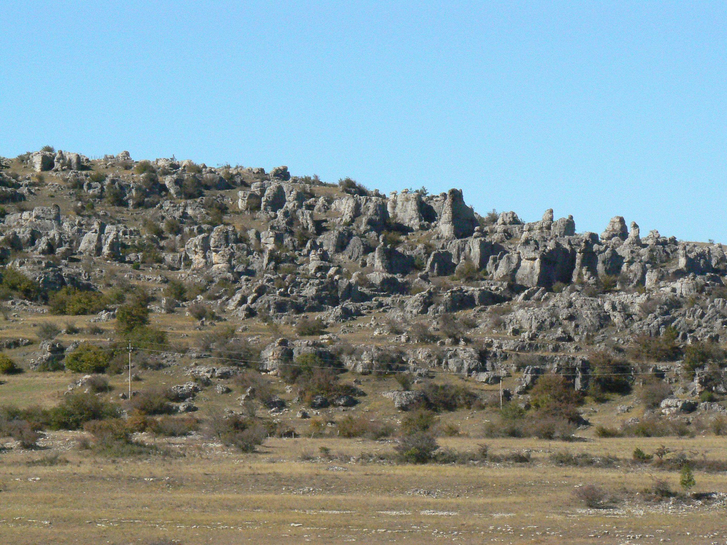 Nîmes-le-Vieux in Lozère (France)